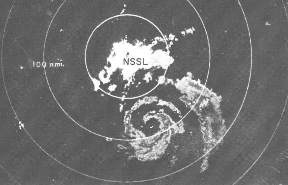 Doppler radar image of the remnants of Tropical Storm Felice over southeastern Oklahoma, USA, on September 17, 1970. Note the well-defined eye and banding structures, typical of a healthy tropical cyclone over open waters.